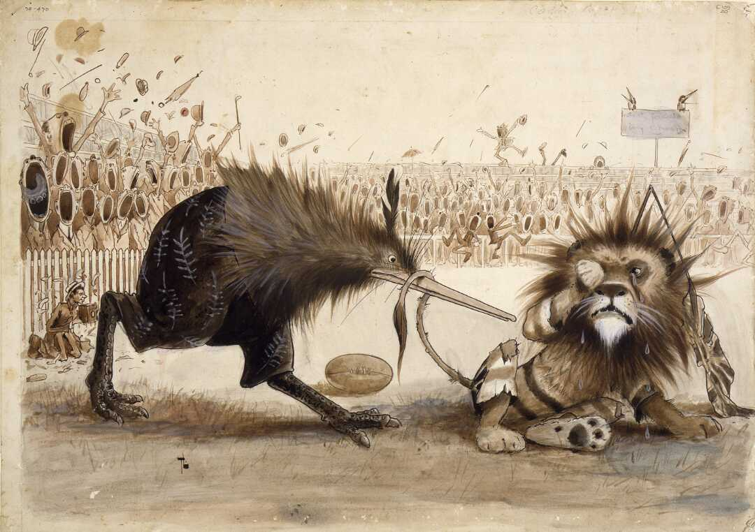 A cartoon by Trevor Lloyd celebrating Britain defeated by the All Blacks. 1908 (Alexander Turnbull Library C-109-020). The cartoon was published in the Auckland Weekly News 30 July 1908.